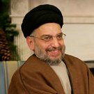 A cropped headshot of Sayyed Abdul-Aziz Al-Hakim, Leader of the Supreme Council for the Islamic Revolution in Iraq.